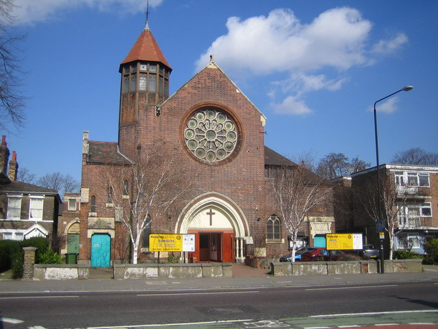 Forest Gate: Woodgrange Baptist Church, E7 To be found on the north side of the A118 Romford Road, the Church was built in 1882 and enlarged in 1901. The Church's website is here